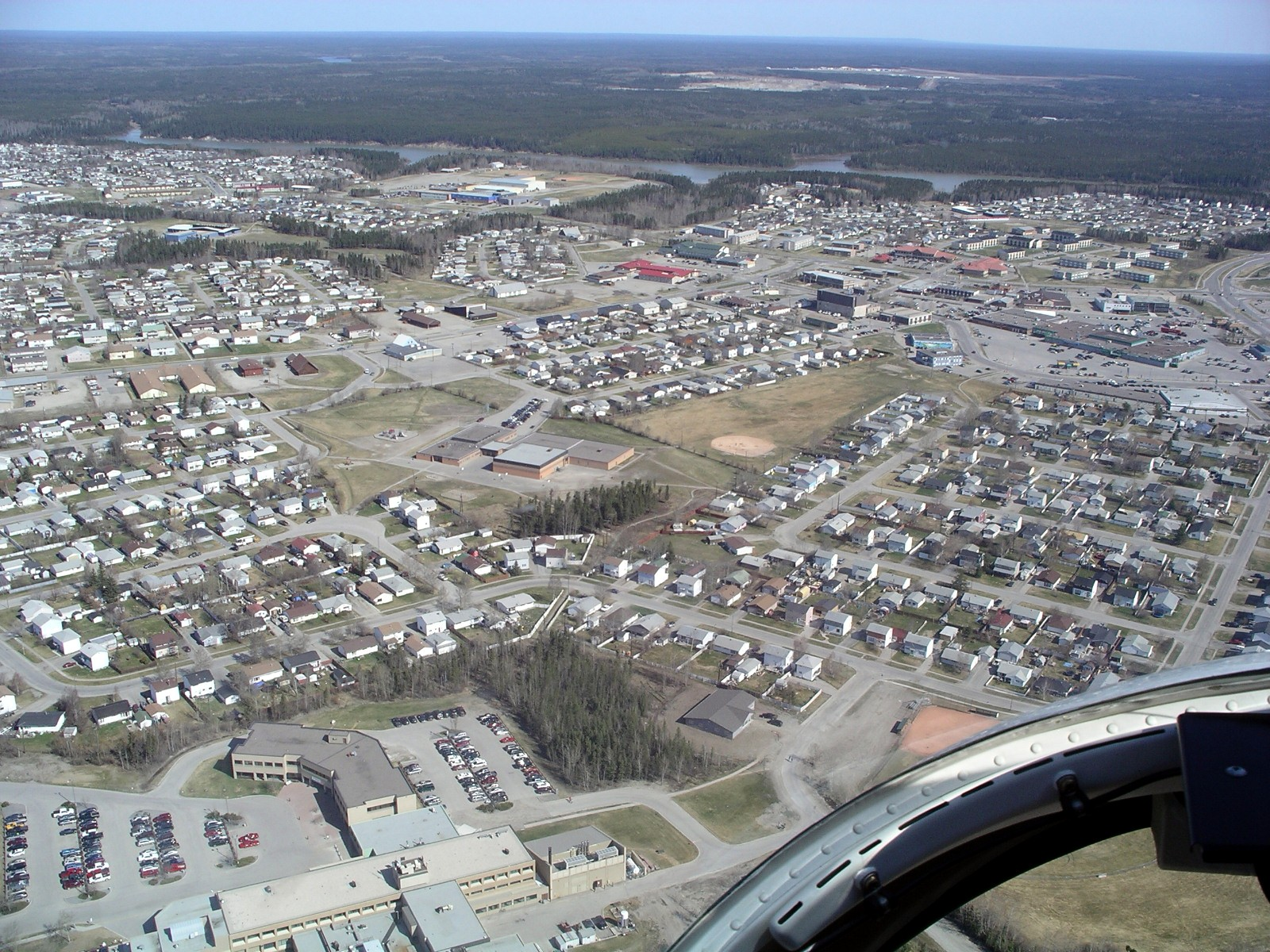 Central part of the city